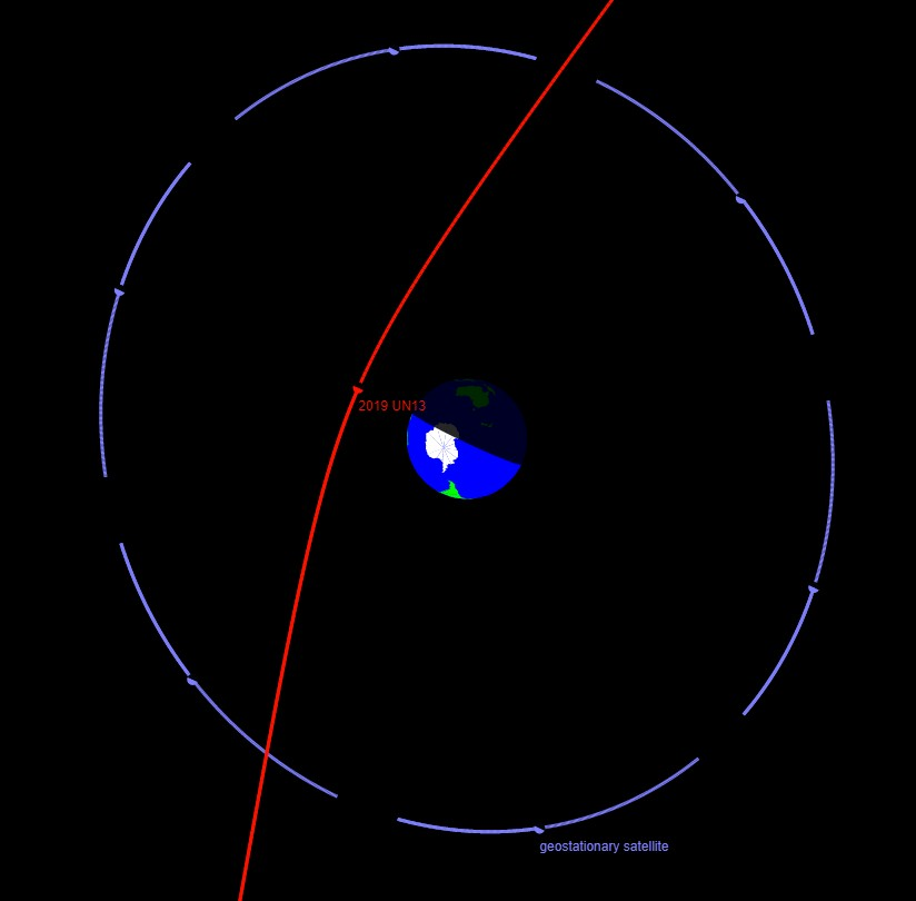 Asteroid 2019 UN13 passes 6200 km above Madagascar. This close approach allows Earth's gravity to bend the trajectory of the asteroid.